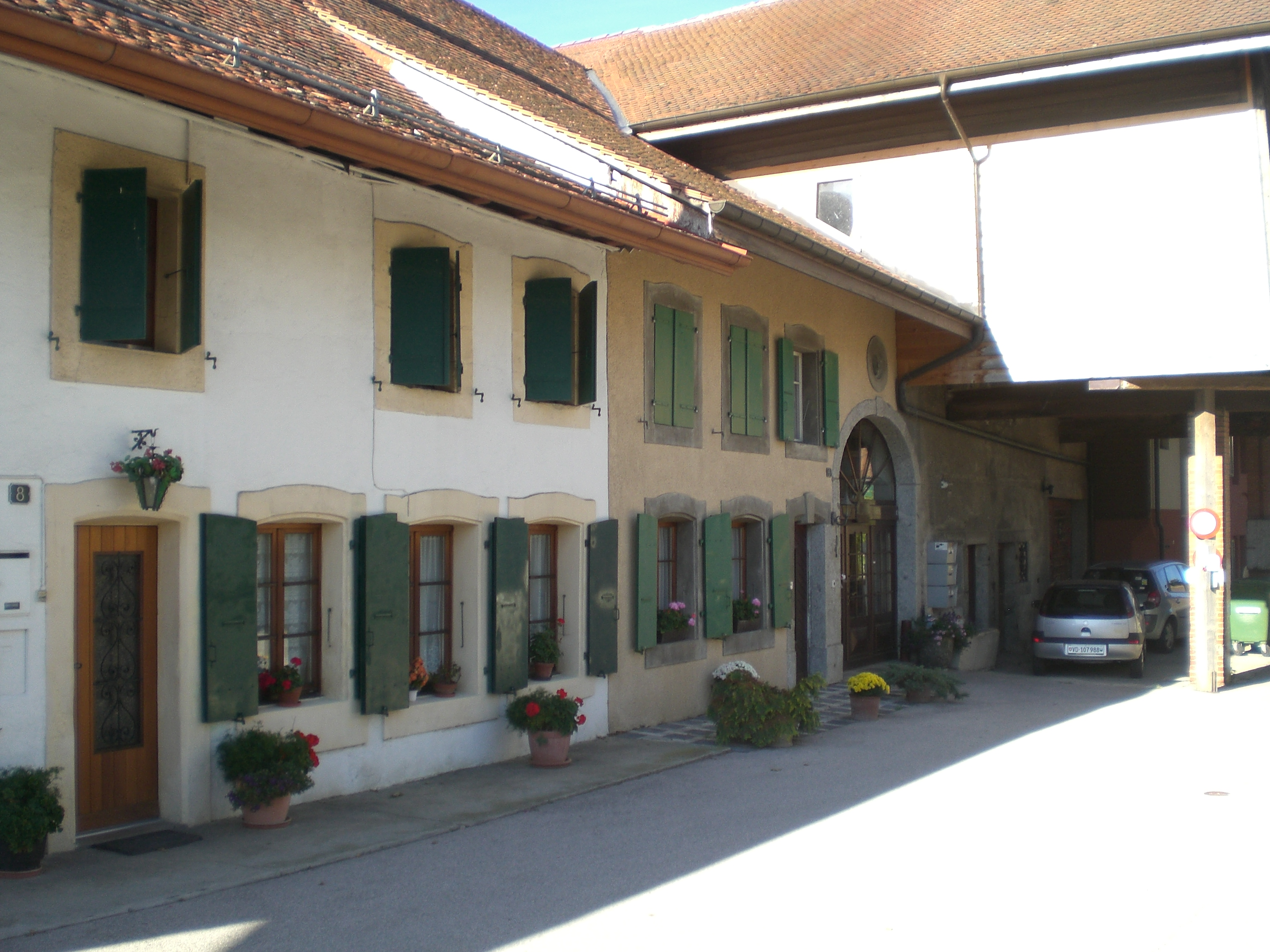 Farmhouse in Étagnières, canton of Vaud, Switzerland